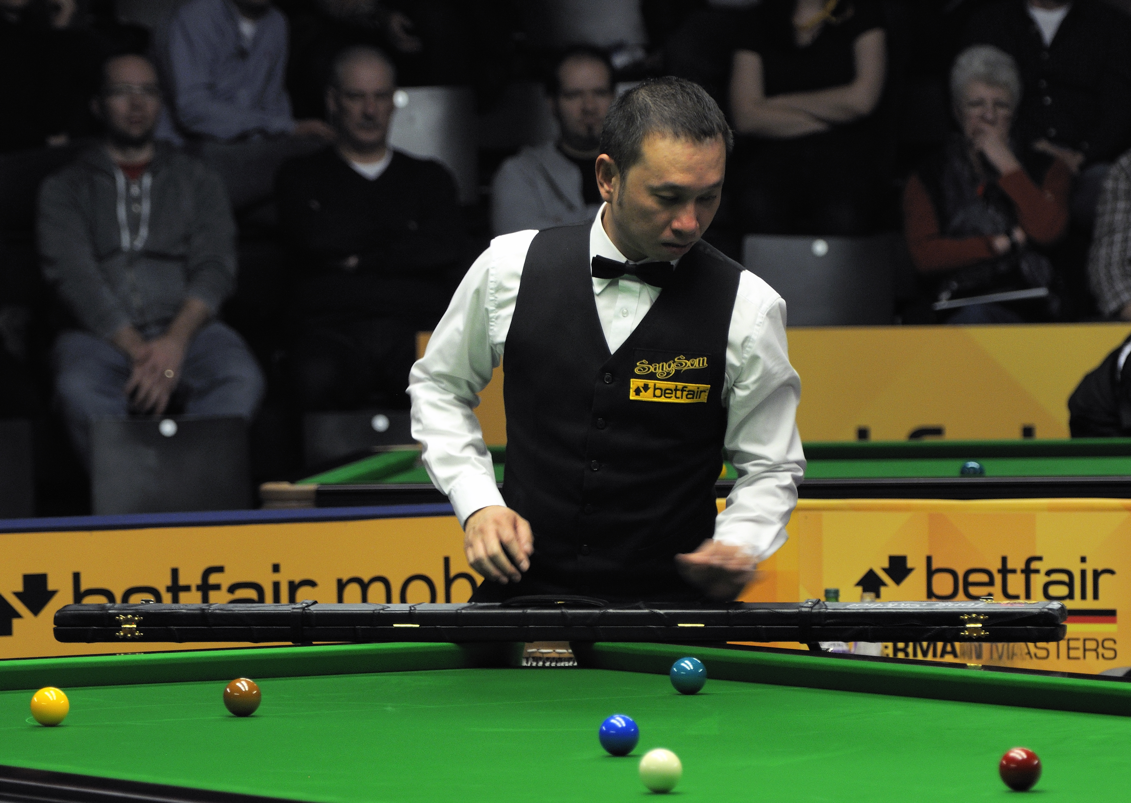 Picture taken in Berlin during the Snooker German Masters in 2013. James Wattana.